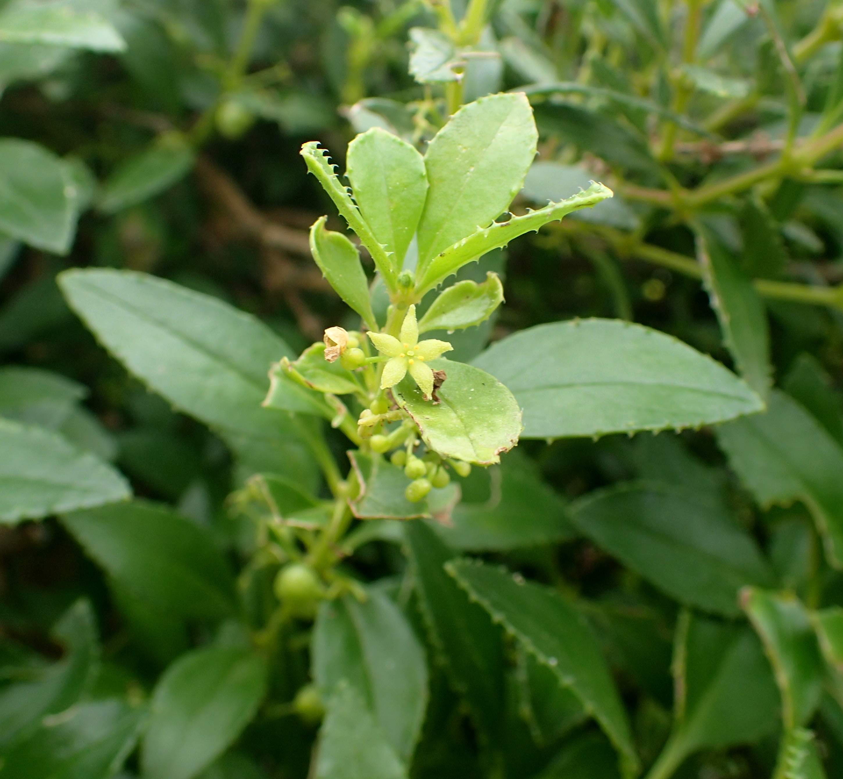 Rubia fruticosa in vicinity of Los Carrizales, Tenerife, Canary Islands